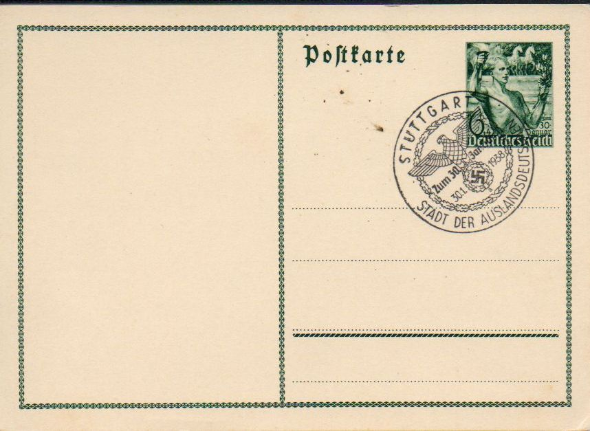 1938 postcard from Stuttgart, Germany which shows a Nazi postmark with the city logo "Stadt der Auslandsdeutschen (City of the Germans living outside of the Reich)